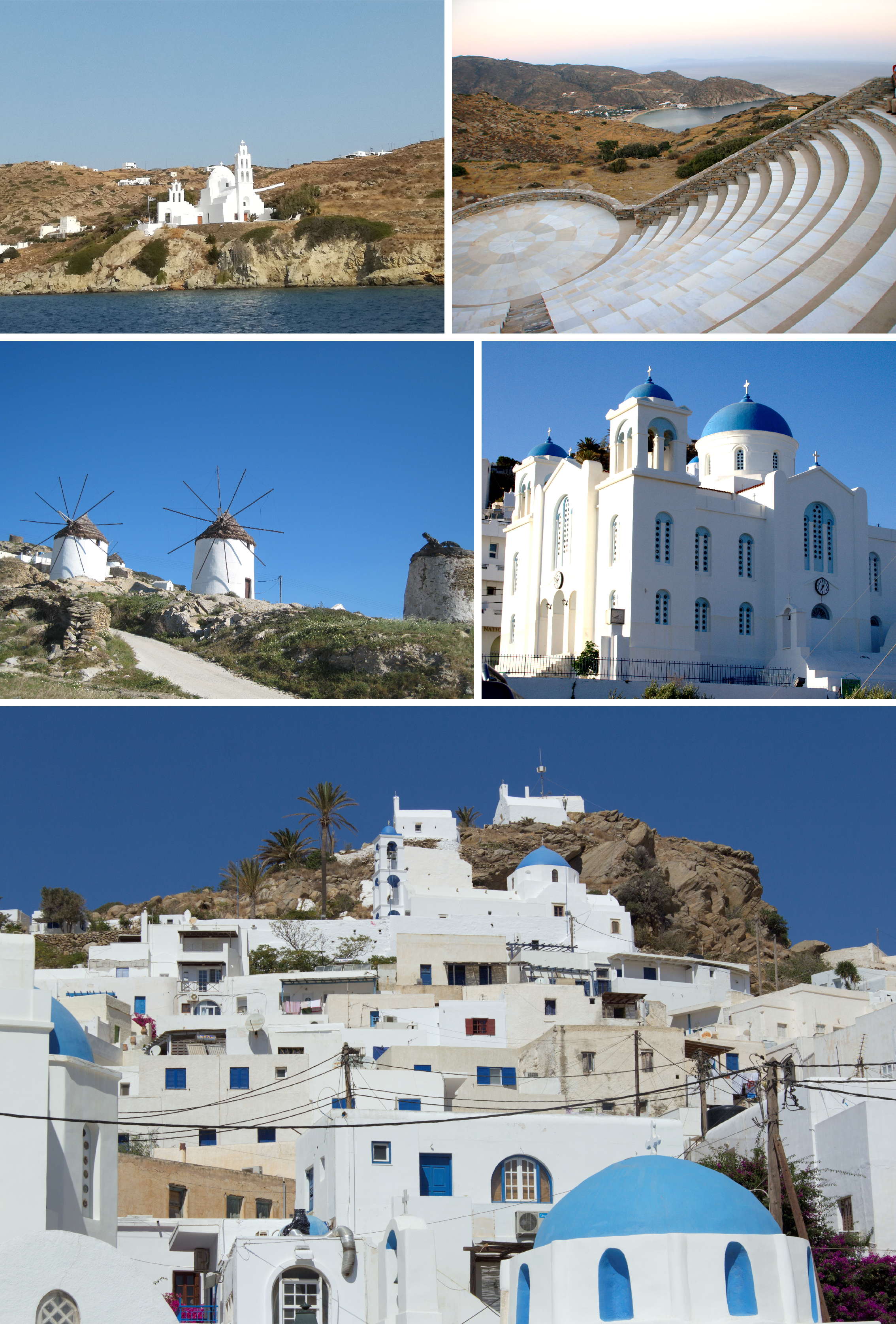 Collage of photos from Ios